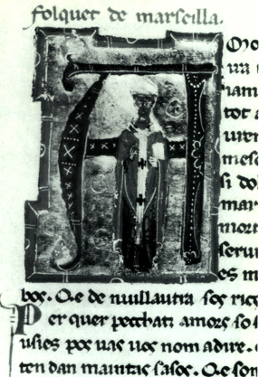 Folquet de Marselha (spelled "Folquet de Marseilla" in the manuscript, held in the Bibliothèque Nationale de France).